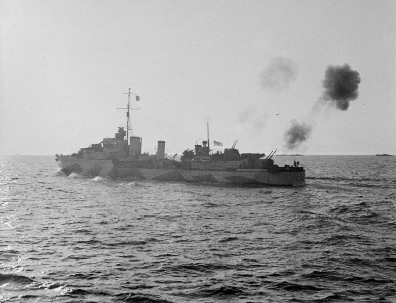 IWM caption : Salerno, 9 September 1943 (Operation Avalanche): The British destroyer HMS Tartar (F43) puts up an anti-aircraft barrage with her 4.5 inch (sic.) AA guns to protect the invasion force from attack by enemy aircraft. Comment : Tartar's anti-aircraft guns at this time were twin 4-inch Mk XVI in "X" position.